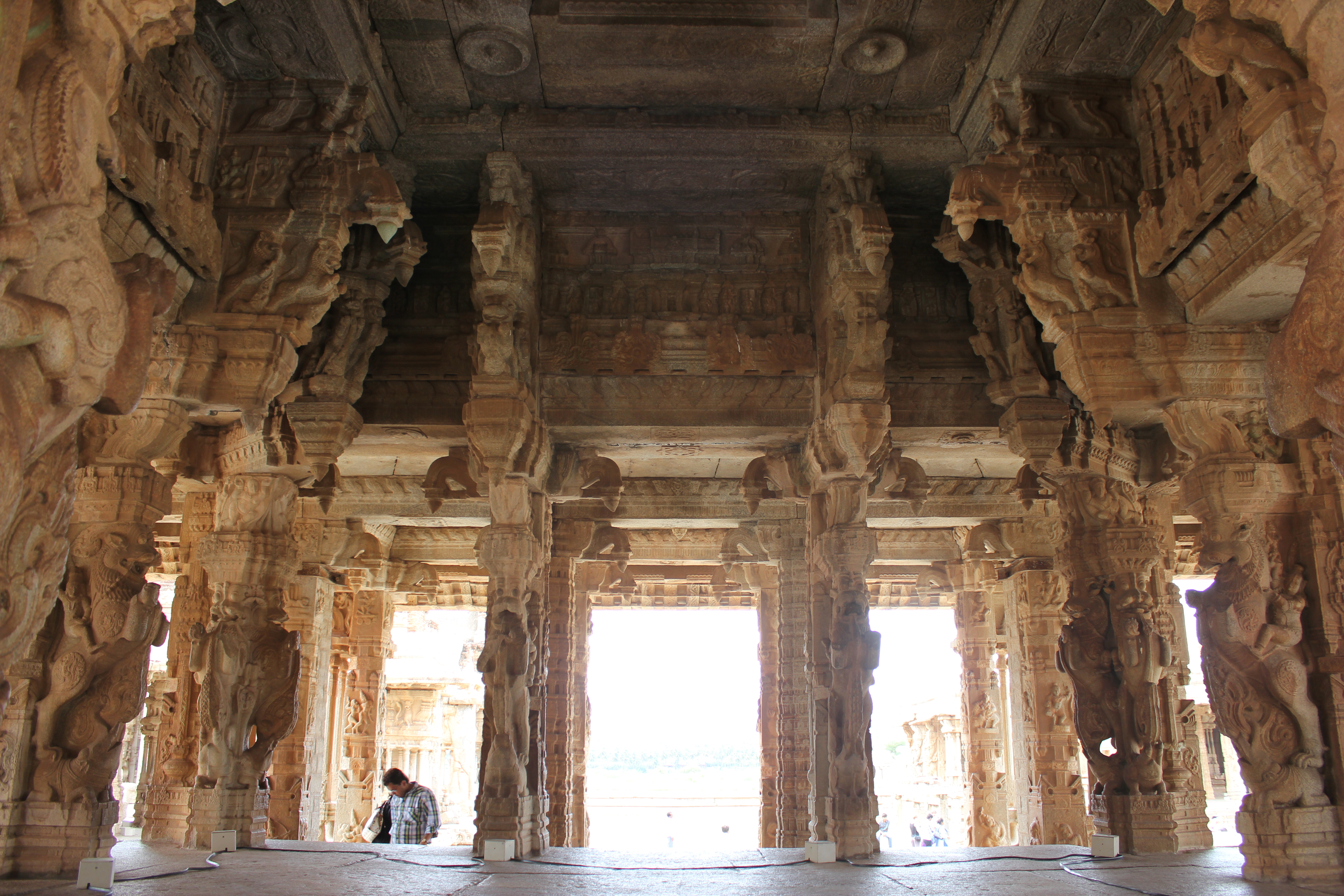 This photograph was taken by me at the Vitthala temple complex in Hampi, a UNESCO world heritage site in the Bellary district, Karnataka state, India. The Vitthala temple took about a hundred years to complete. Its construction was started during the rule of Vijayanagara King Deva Raya II (1426-1446 AD) and completed during the reign of King Achyuta Raya (1529-1542 AD).